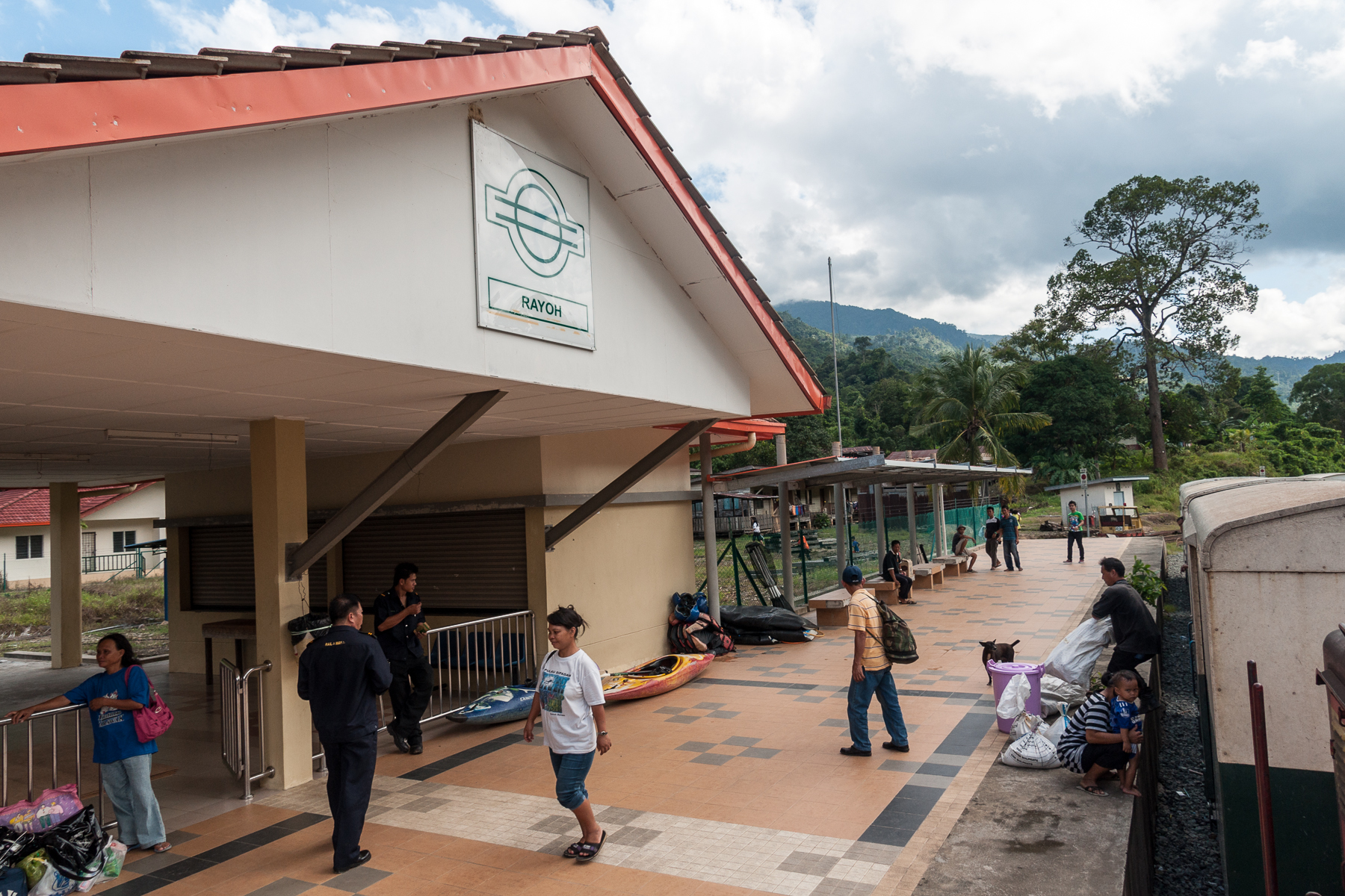 Sabah State Railway: Stesen Rayoh in the Padas River Valley